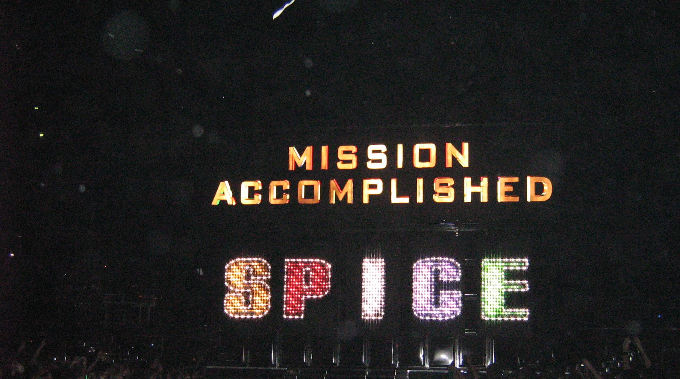 Mission Acccomplished